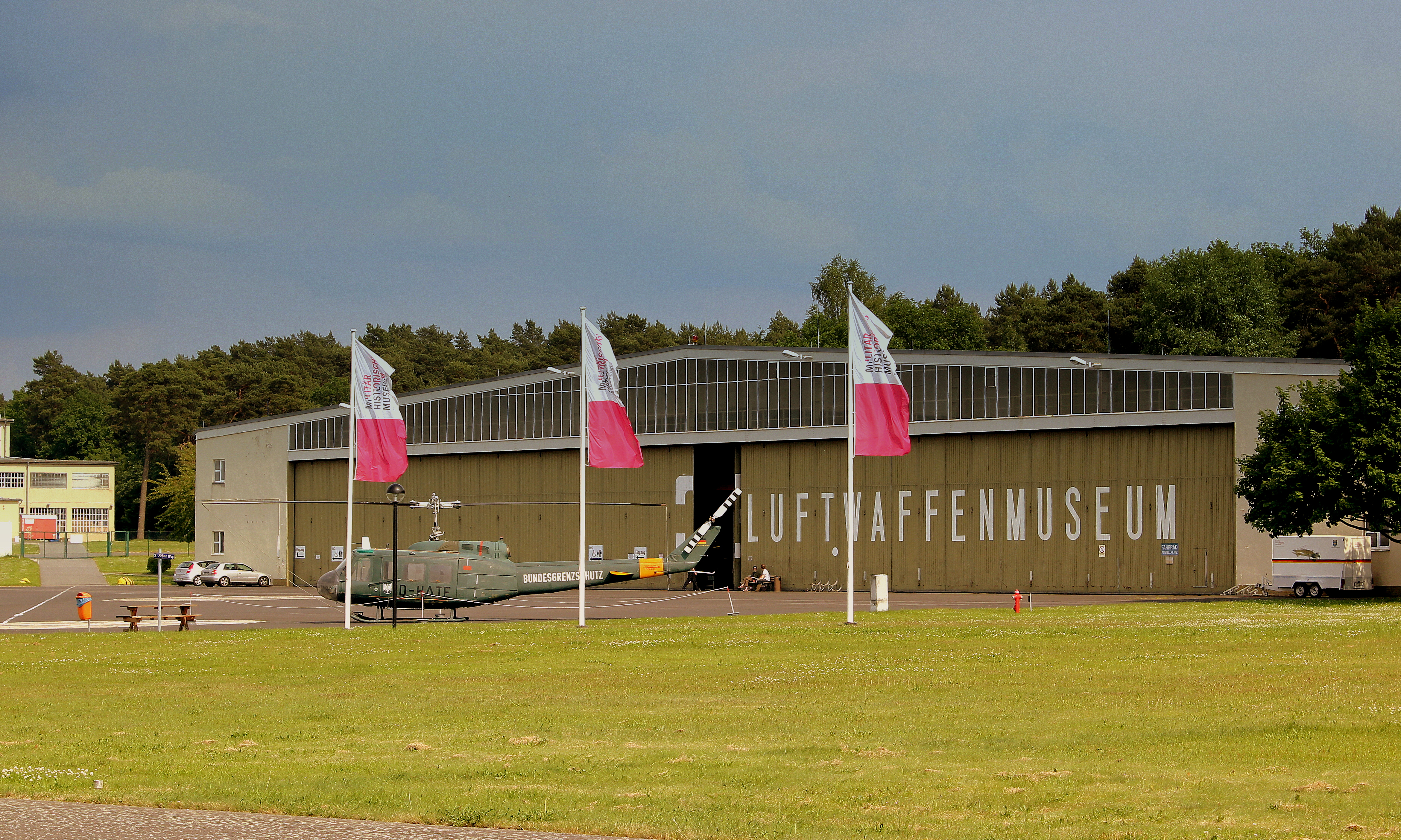 BELL UH 1 HUEY D-HATE OUTSIDE THE LUFTWAFFEN MUSEUM AT RAF GATOW BERLIN JUNE 2013